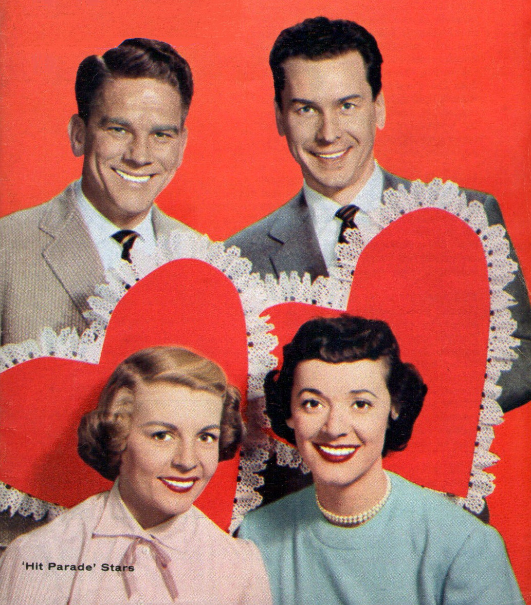 Cast photo from the television show Your Hit Parade Pictured are the vocalists who were permanent cast members. Top from left-Snooky Lanson and Russell Arms. Bottom from left-Dorothy Collins and Giselle MacKenzie. The photo was the cover of TV Guide for the week February 12-18, 1955. A search for a copyright renewal for this issue of TV Guide was done at using "TV Guide" as the title. The only 1955 renewal was for a Norman Rockwell image of Arthur Godfrey which was the magazine's cover for that given week. The TV Guide copyright renewals with the exception of the 1955 Norman Rockwell "Godfrey" cover begin with 1956. There is no evidence that copyright is still claimed on this material.